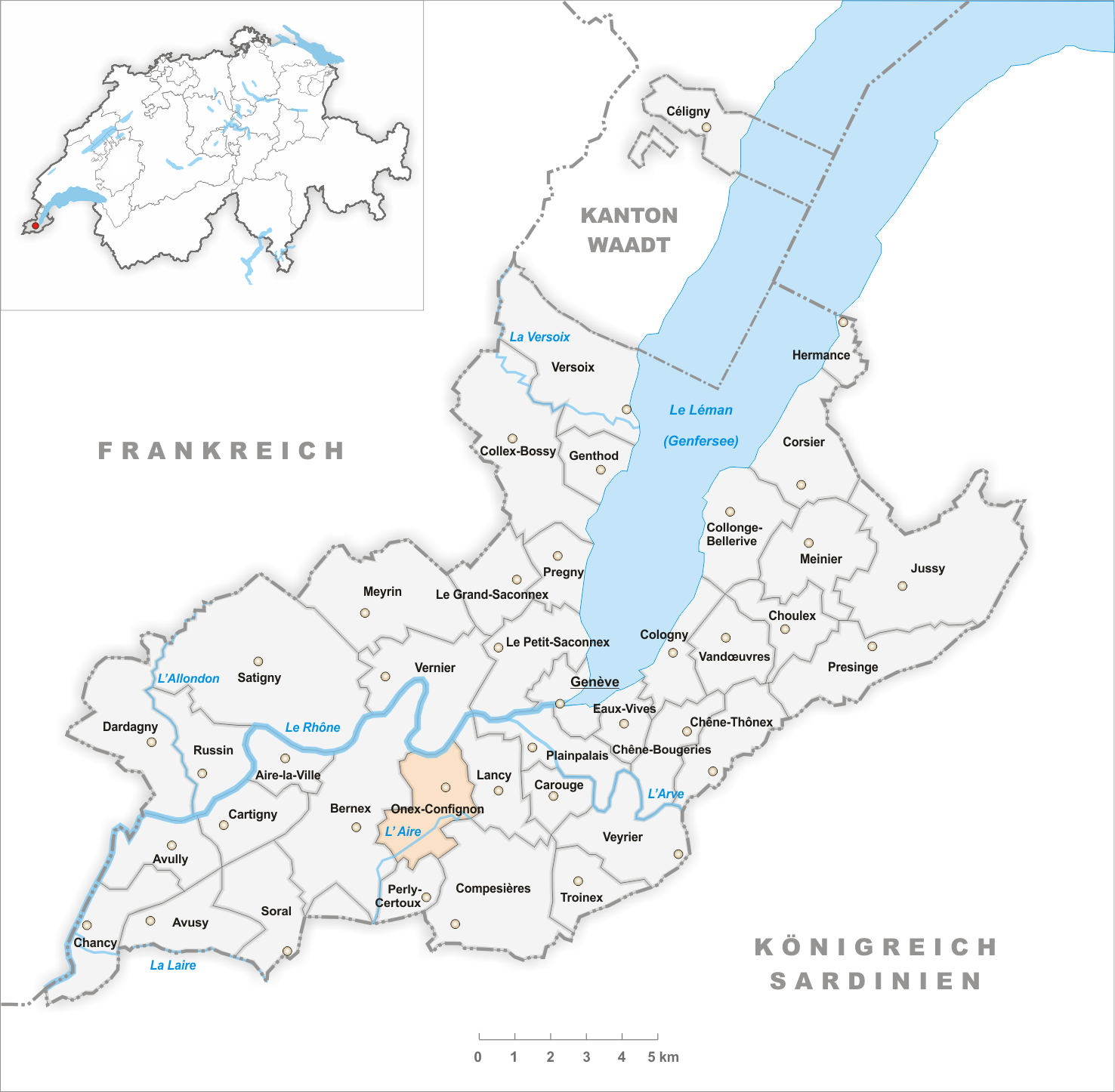 Municipality Onex-Confignon Artist: Tschubby